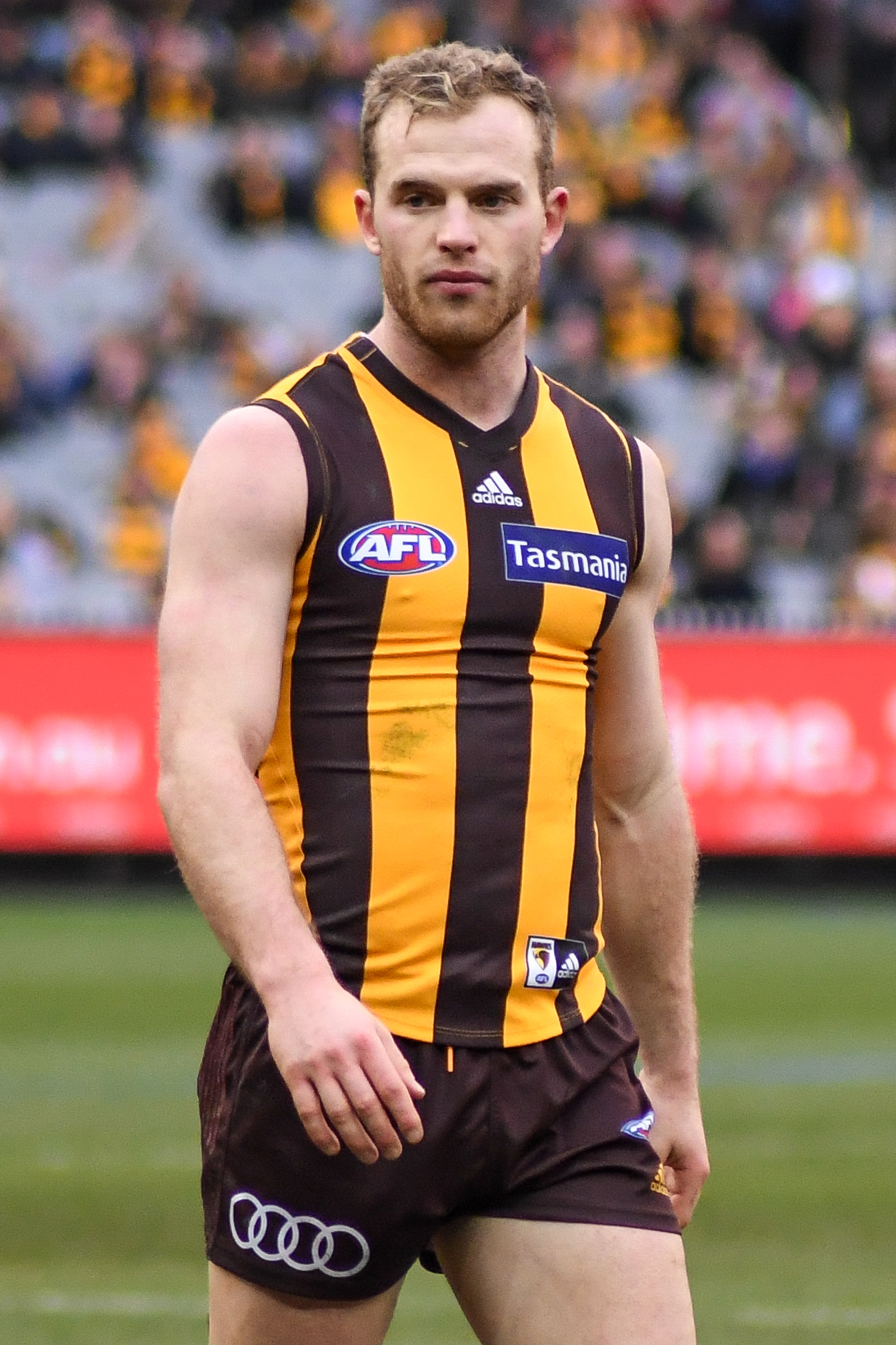 Tom Mitchell of Hawthorn during the 2018 AFL round 20 match between Hawthorn and Essendon at the Melbourne Cricket Ground on Saturday, 4 August 2018 in Melbourne, Victoria.